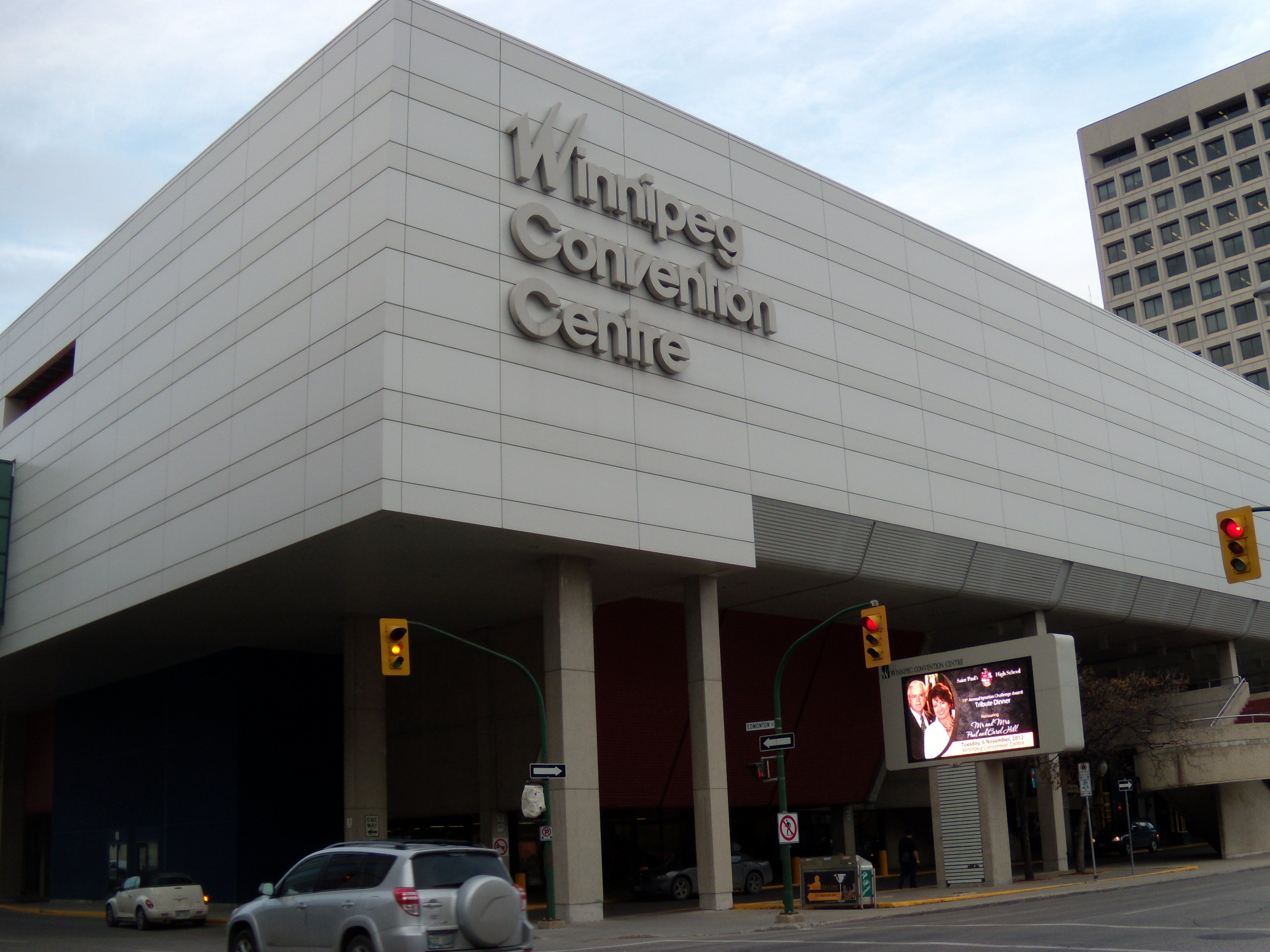 Winnipeg Convention Centre, York Avenue entrance